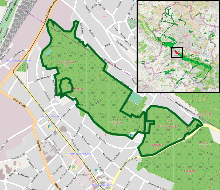 Bielefeld - Nature reserve Östlicher Teutoburger Wald (LP BI-Ost) - overview mapNumber and borders of nature reserves are subject to frequent change. In order to facilitate reproduction of this map from openstreetmap, the following data is stored here: export boundaries: north: 52.004; west: 8.50; east: 8.53; south: 51.998; mapnik svg, scale 1:14.000 nature reserve boundary stroke weight 10.0; nature reserve stroke color: R 5, G 102, B 36; municipality border stroke weight: as found